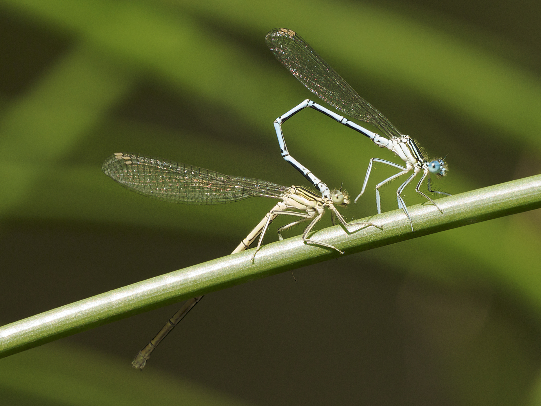 Mating White-legged Damselflies (Platycnemis pennipes), Tingsryd, Sweden